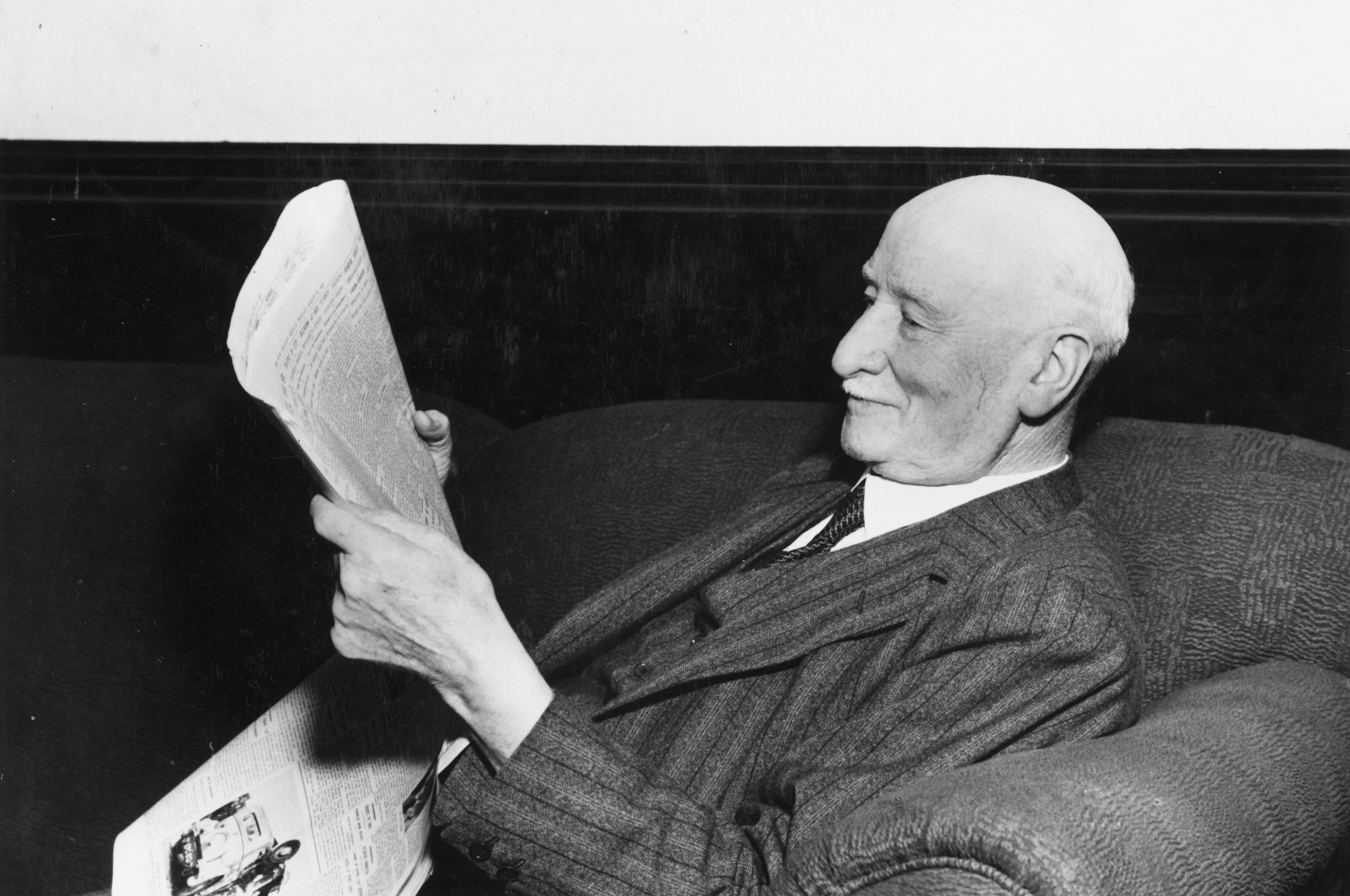 Albert Edward Jull in circa 1939